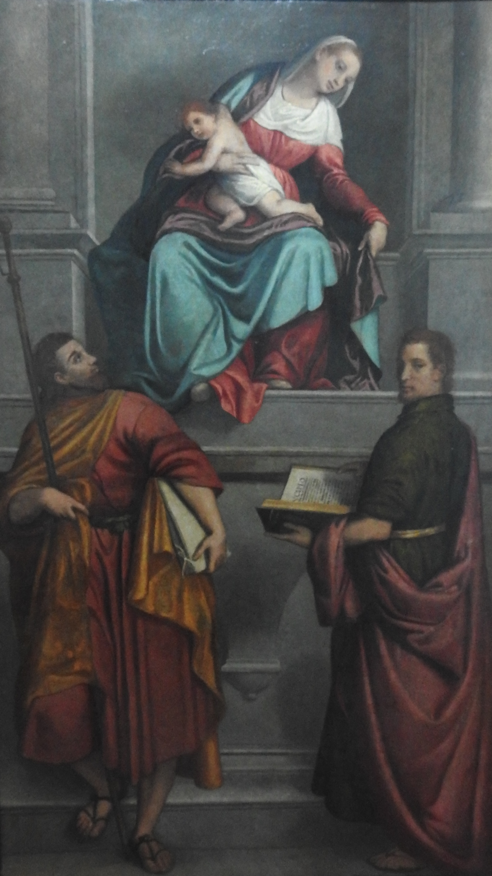 Giovan Battista Moroni 1561-62.